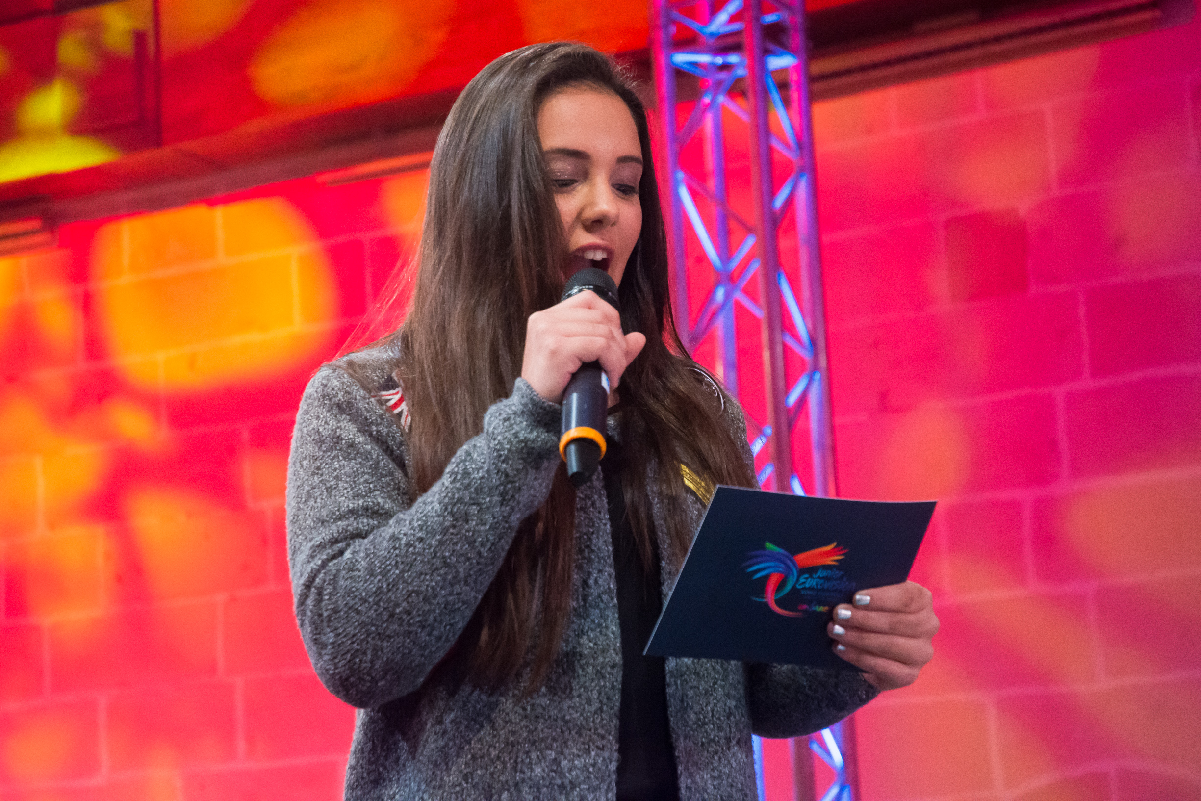 JESC 2016 spokesperson of Italy – Jade Scicluna